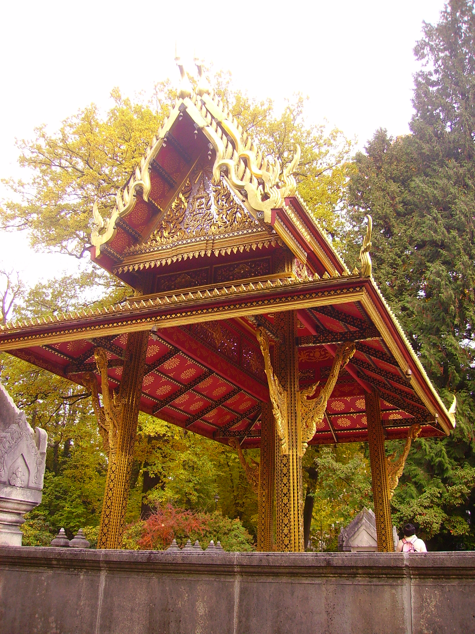 Thai Sala, Bad Homburg vor der Höhe